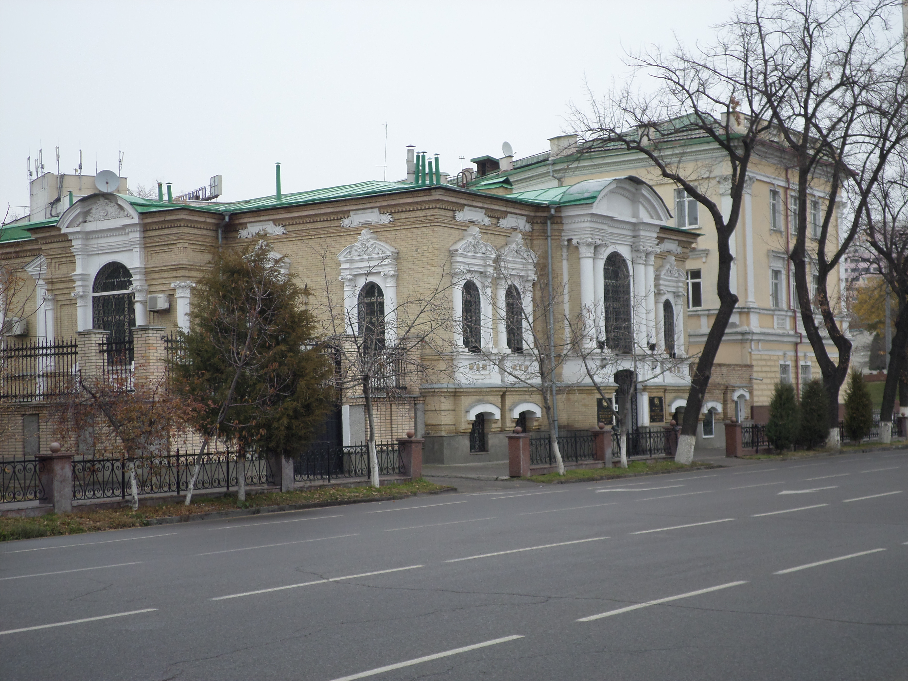 Bank, it used to be the Tashkent branch of the Imperial State Bank